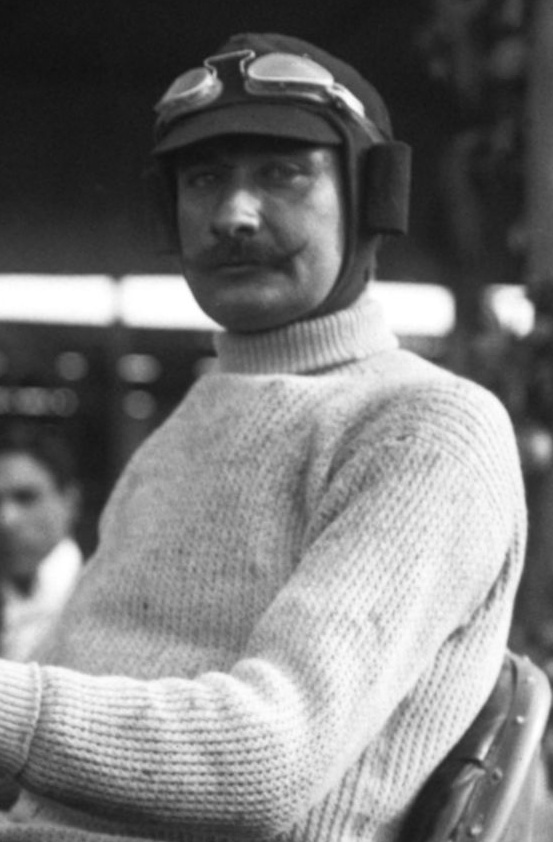 Ernesto Ceirano in his SPA at the 1908 Targa Florio.